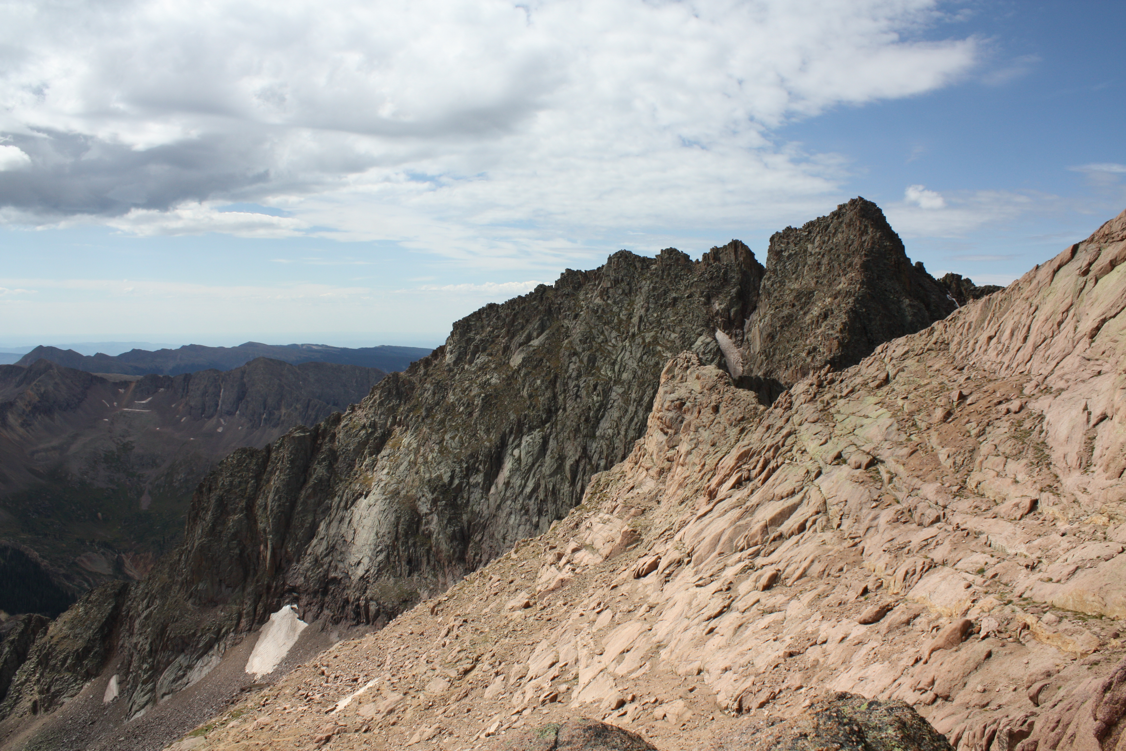 The ridge from N. Eolus over to Eolus